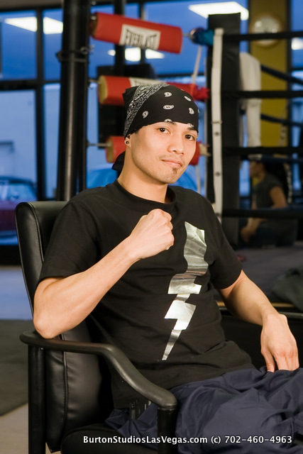 The Filipino Flash Nonito Donaire in his "Team Donaire" official T-shirt on February 9, 2010.